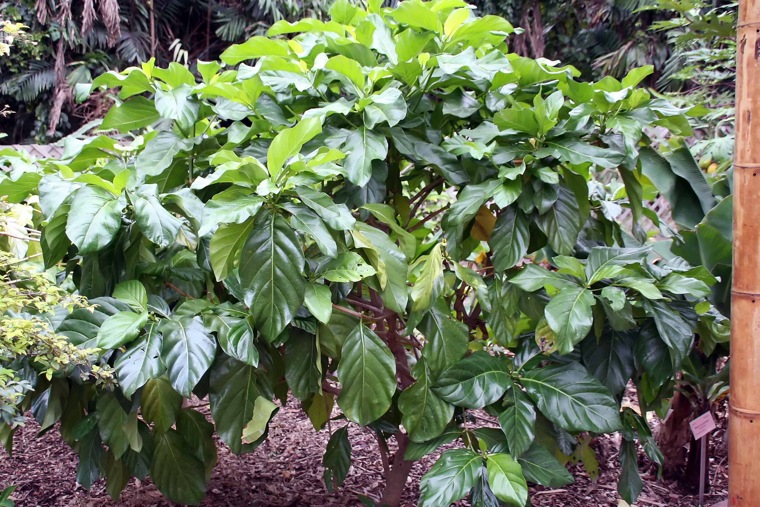 Location taken: Fairchild Tropical Botanic Garden, Miami, FL USA. Names: Morinda citrifolia L., Aach, Aal, Ach, Achchhuka, Achu, Achuka, Ahugaha, Ak, Al, Ashi, Ashyka, Ashyuka, Aval, Awl Tree, Bancudo, Bangcudo, Bankudo, Barraal, Bartundi, Beach Mulberry, Bengkudu, Bengkudu Daun Besar, Bengkudu Laki-Laki, Bois Douleur, Cây Nhàu, Canary Wood (Australia), Cangkudu, Cheese Fruit, Great Morinda, Hai Ba Ji, Hardikath, Huevo De Reuma (Dominican Republic), Hurdi, India nonipuu, Indian Mulberry, Indian-Mulberry, Indinė morinda, Indische Maulbeere, Indischer Maulbeerbaum, Indischer Maulbeerstrauch, Kaasvrucht, Kattapitavalam, Kattaspitalavam, Kura, Large-Leaved Morinda, Luo Ling (Singapore, Maddi Chettu, Mancanaari, Manjanathhi, Manjanatthi, Mannanatti, Mannapavatta, Mata Suea (Northern Thailand), Mengkudu, Mengkudu (Indonesia), Mhanbin, Mogali, Molagha, Molugu, Mora De La India, Morwa indyjska, Mulgul, Mulugu, Munja Pavattay, Nagakuda, Nagakunda, Neihpahsae, Nhàu, Nino, Noni, Noni (Hawaii), Noni (planta), Noni (Puerto Rico), Noni Baum, Noni Fruit, Noni Plant, Noni-Baum, No